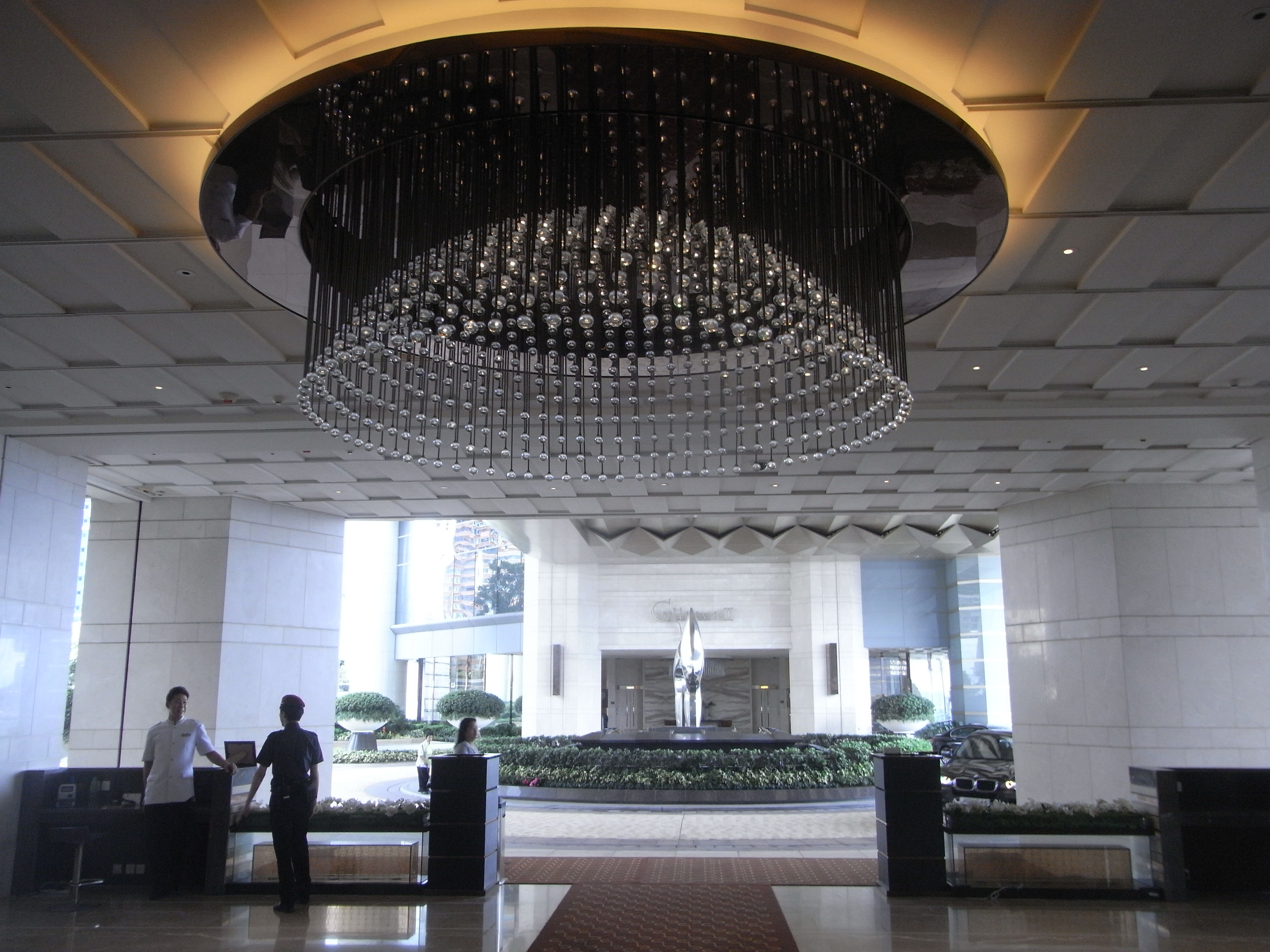 中文（香港）: 天璽zh-yue:Clubhouse